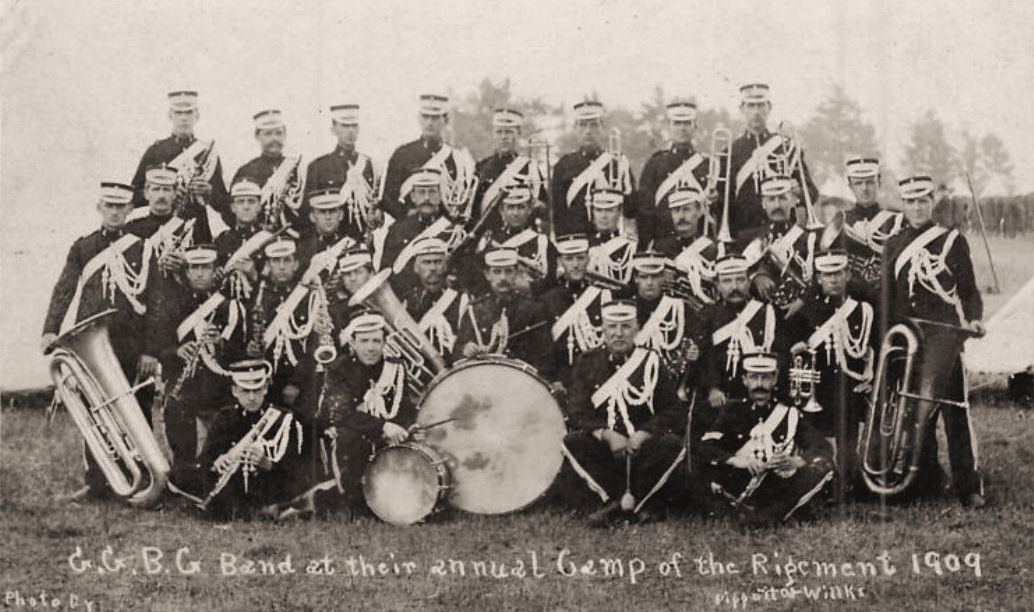 Canada. Governor General's Bodyguard Band Regiment Camp, Toronto, 1909